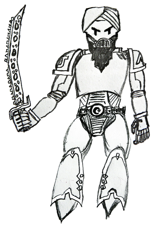 My contribution to 'Everybody Draw Mohammed'-Day. Maybe I'll add some colour or additional ornaments for the breastplate later, atm I've lost interest.